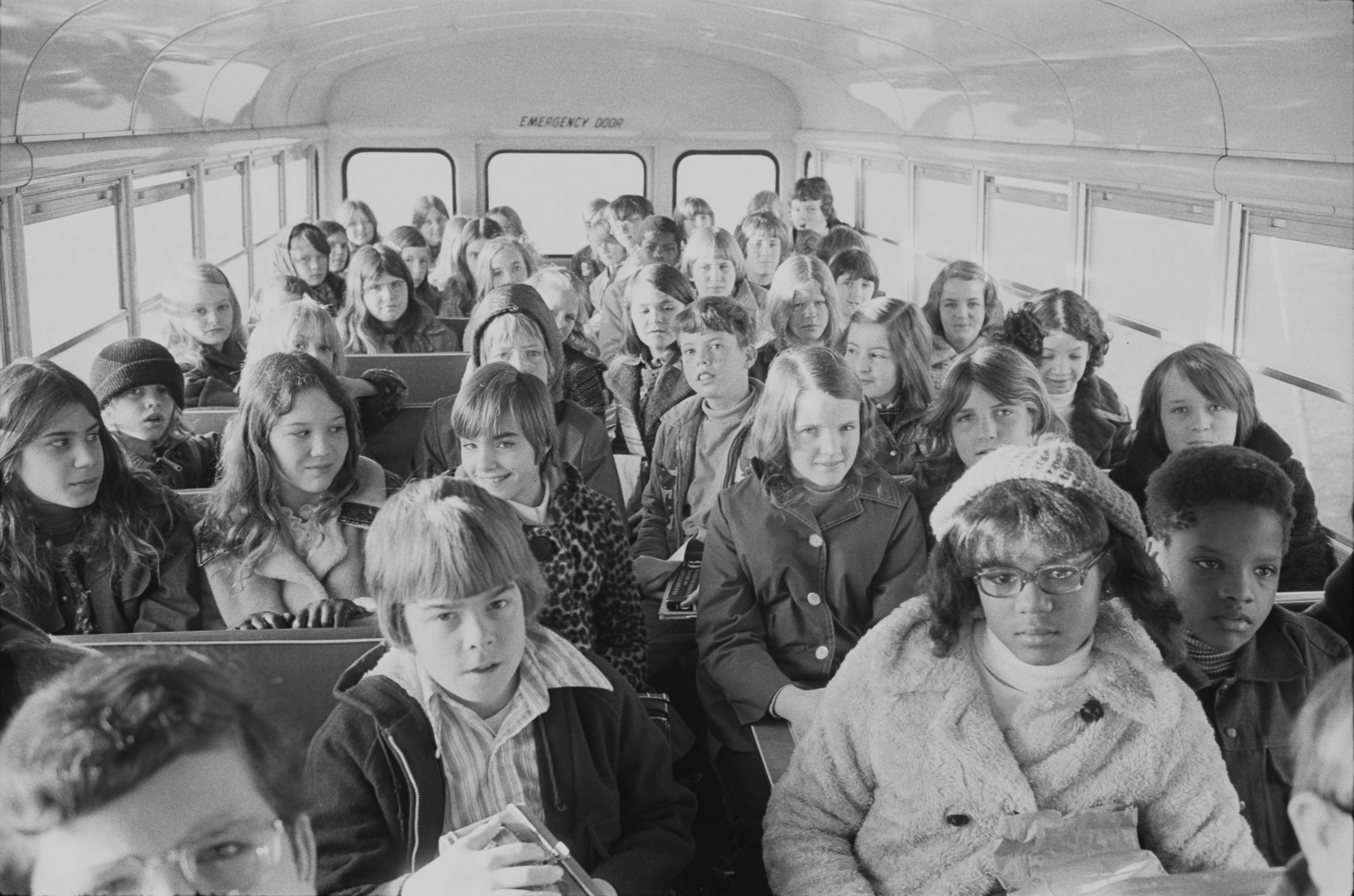 African American and white school children on a school bus, riding from the suburbs to an inner city school, Charlotte, North Carolina